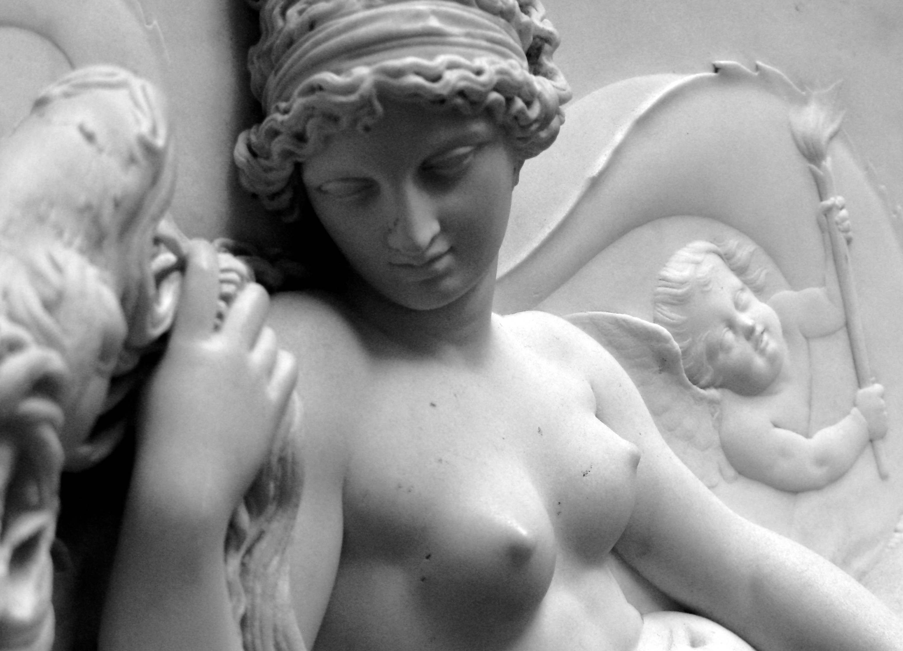 Venus Reclining on a Sea Monster with Cupid and a Putto. John Deare English, 1785 - 1787 Marble 1 ft. 1 1/4 in. x 1 ft. 11 in. x 4 7/16 in. 98.SA.4 Venus, the goddess of love and beauty, reclines on a fantastic goat-headed sea monster in this allegory of Lust. The goddess entwines her fingers in the creature's bearda so-called "chin-chucking" gesture that represents erotic intentwhile the monster licks her hand in response. Cupid, astride the monster's long tail, is poised to shoot an arrow at Venus, while in the background a putti adds to the amorous imagery by holding a flaming torch, undoubtedly meant to suggest the burning ardor of desire. The sea goat carries Venus through the frothy waves, carved with energy and precision. John Deare displayed his great skill in carving a variety of levels and textures in this sculpture, from the low relief of the Cupid and putti to the smooth, half-relief of Venus, and finally to the sea-goat's fully three-dimensional snout and wavy strands of hair. Deare's depiction of Lust as a woman riding a goat forms part of an iconographic tradition that has been popular since the Middle Ages.